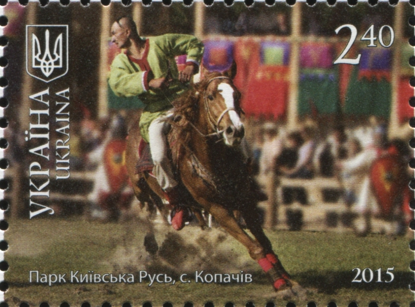 Stamps of Ukraine, 2015